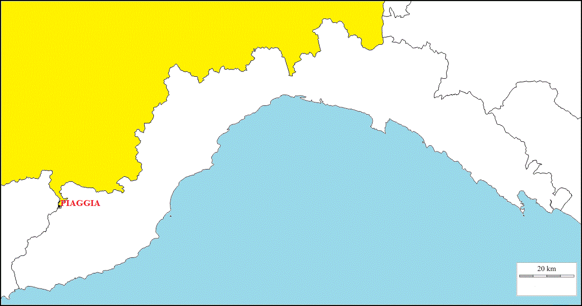 Piaggia, Briga Alta (CN)